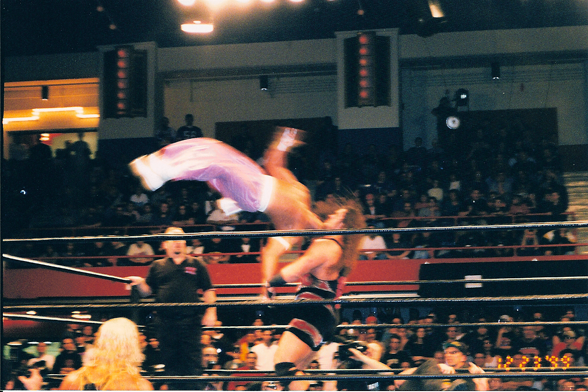 ECW @ Westchester County Center in White Plains, NY TNN TV Taping - 12.23.99